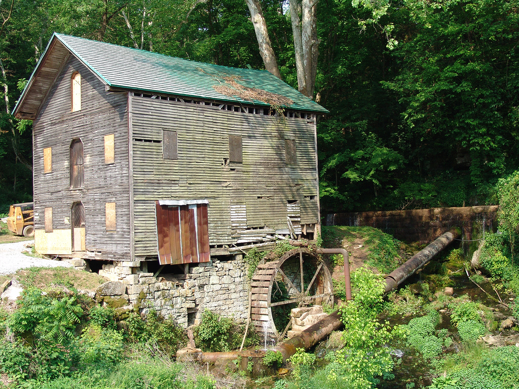 Beck's Mill located in Washington Co., IN south of Salem, IN. Built after the Civil War, one of the oldest mill sites in Indiana. For additional information: [1]